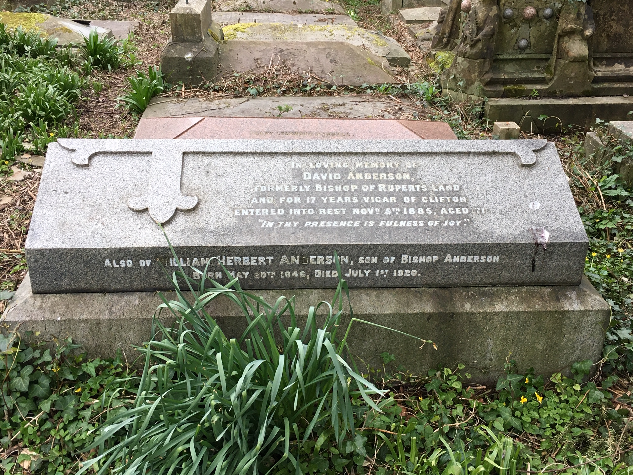 The grave of Bishop David Anderson, in the churchyard of St. Andrew's, Clifton, Bristol